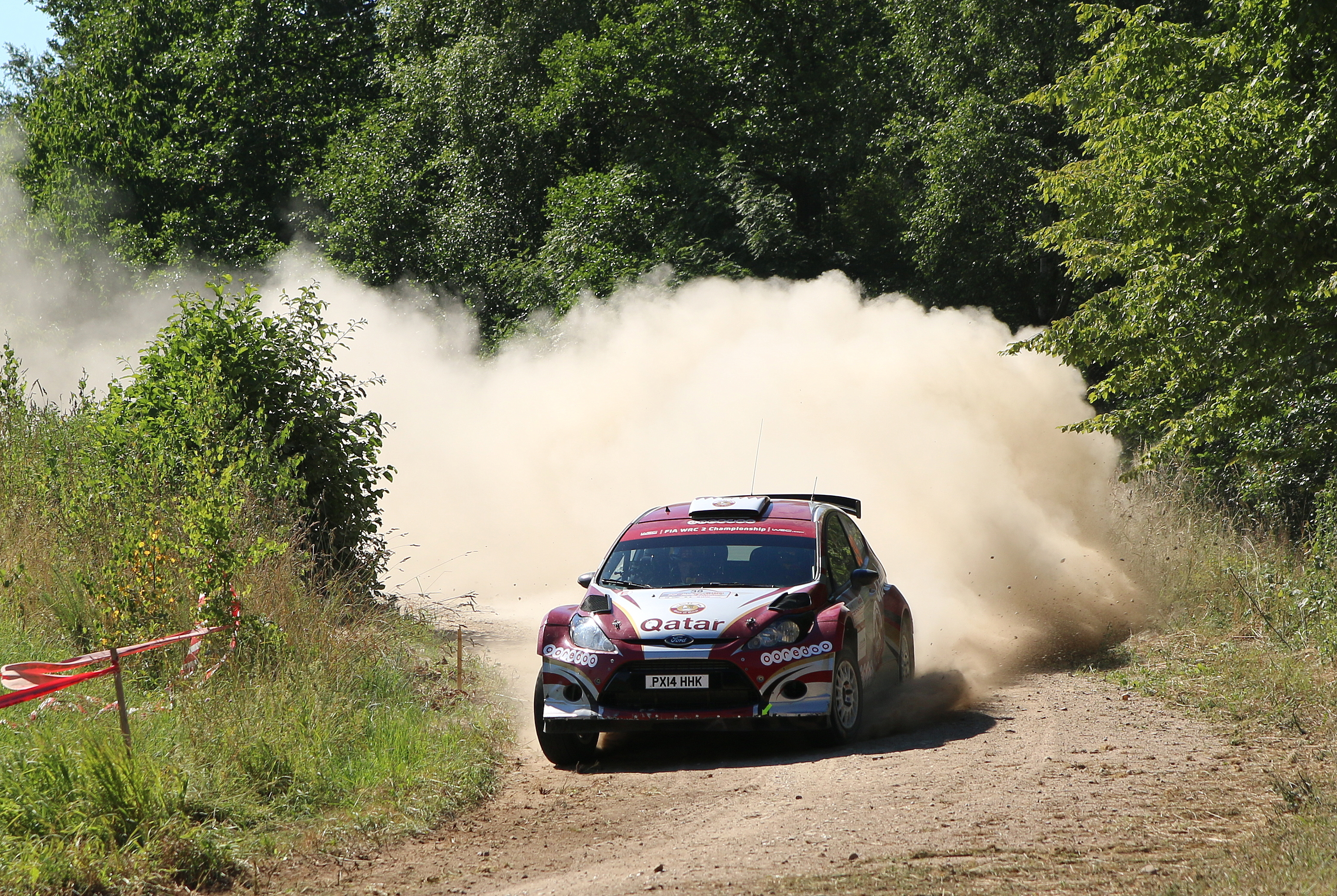 Nasser Al-Attiyah, OS 10 Mazury, 72nd LOTOS Rally Poland